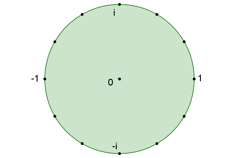 12th roots of unit in C